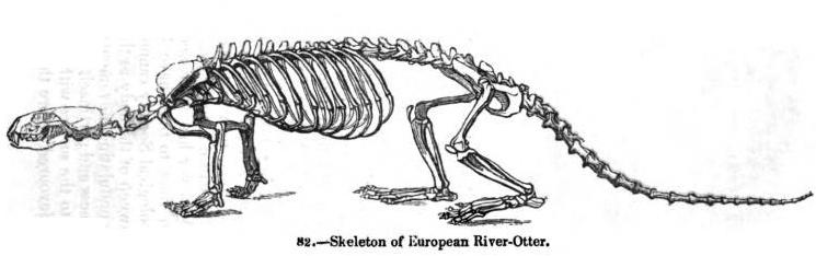 An illustration of a European Otter skeleton